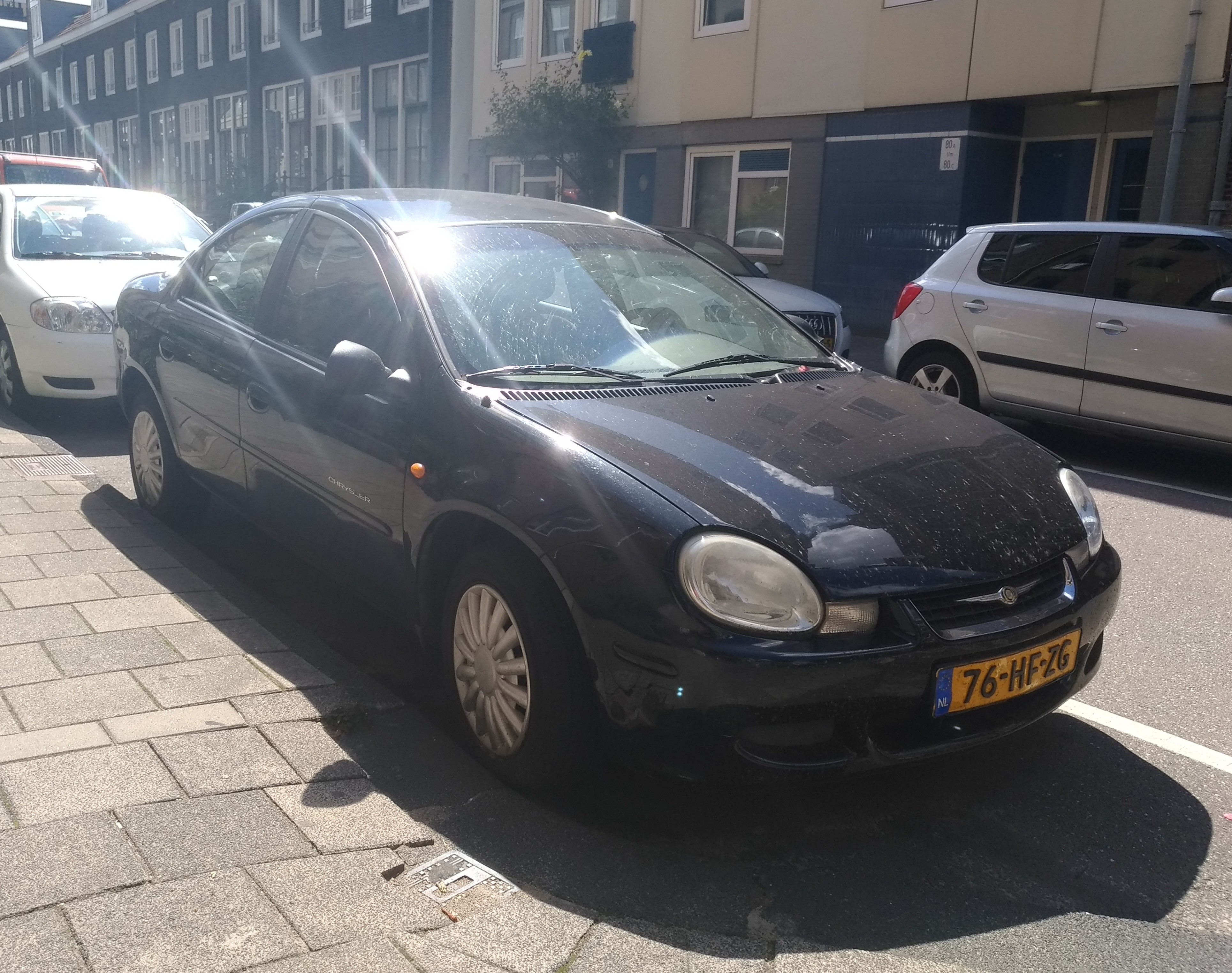 Chrysler Neon